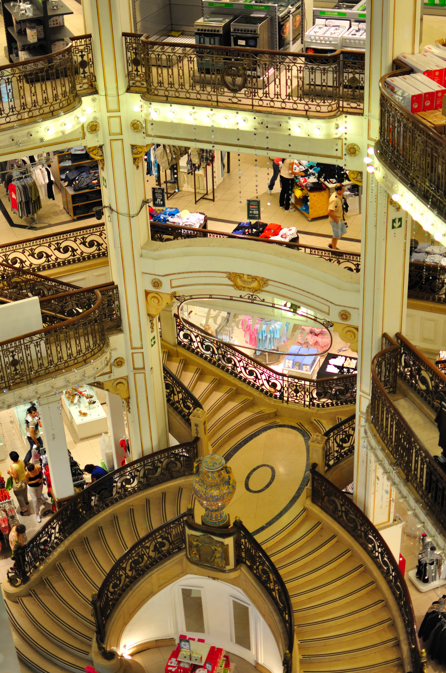 The former La Favorita Department Store (today, Falabella), Rosario, Argentina.